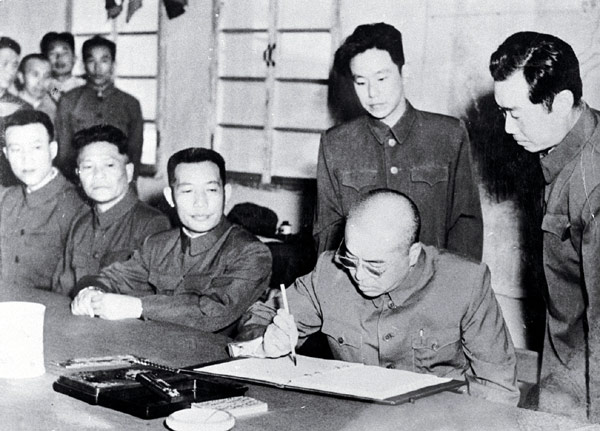 The Chinese general, Peng Dehuai, signs the 1953 armistace agreement ending the Korean War, in Kaesong.